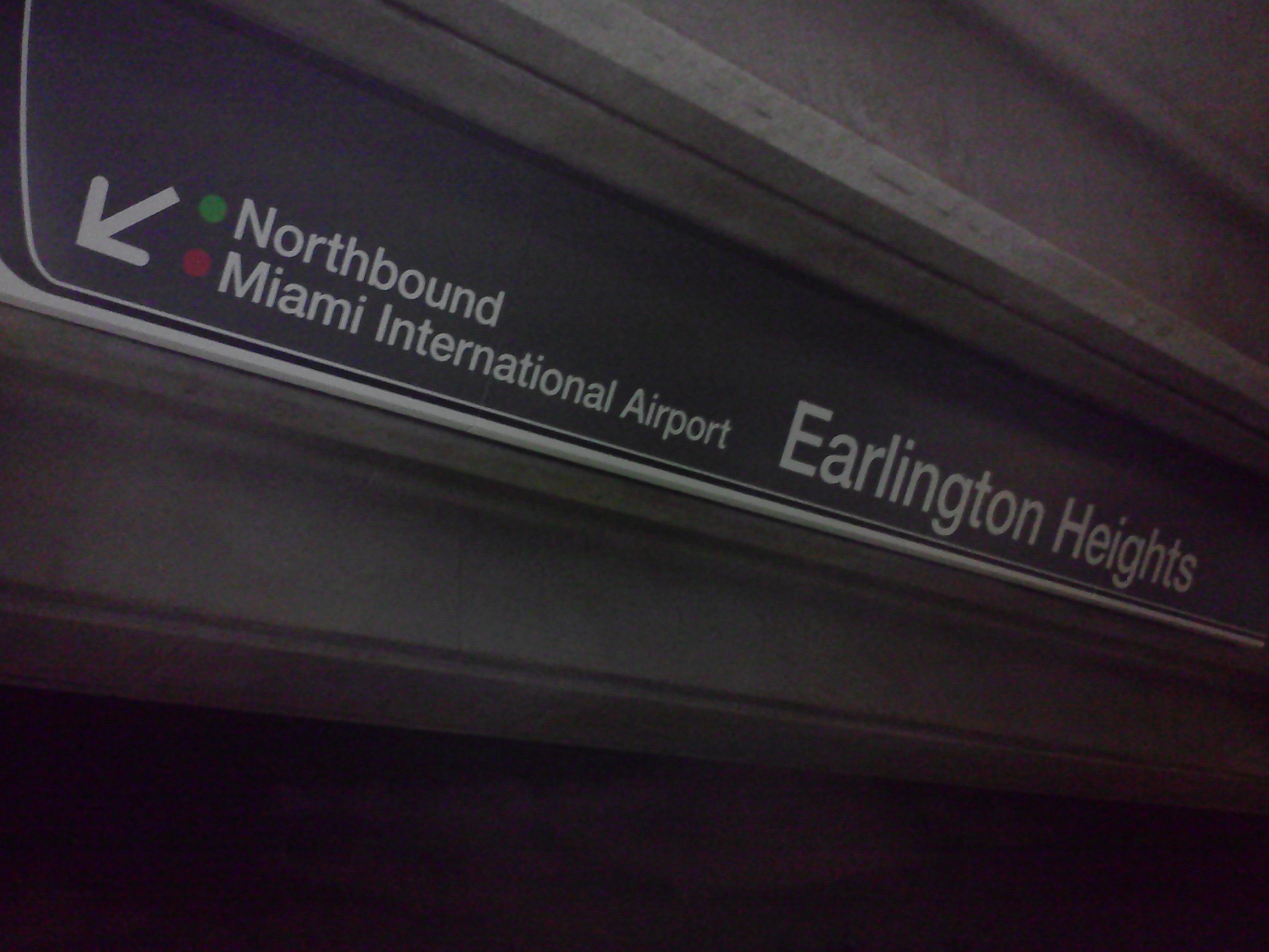 New sign indicating the Orange Line at the Metrorail (Miami) Earlington Heights station.